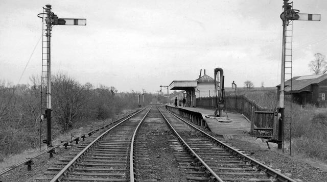 Braunston (London Road) Station (remains). View eastward, towards Weedon; ex-LNW Weedon - Daventry - Leamington line. Station had been closed to passengers 15/9/58 - but it does not seem so, from the activity on the platform; it closed to goods when the line was closed completely on 2/12/63.